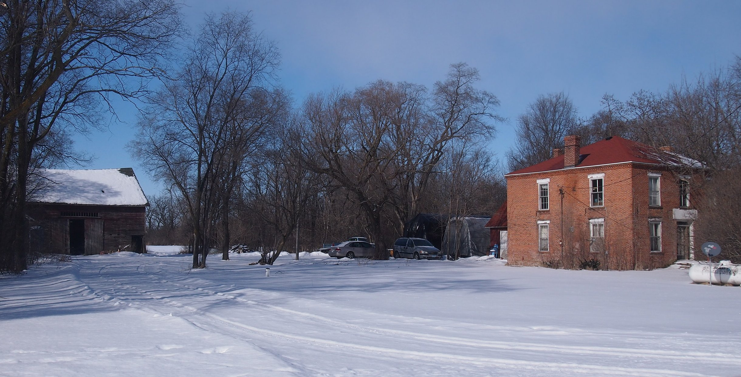 David Hanaford Farmstead, 8307 Cahill Ave NE, Monticello Township, Minnesota, USA. Viewed from the southeast. Area between barn and farmhouse contained additional contributing farm buildings when initially nominated to the National Register in 1979.